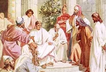 Jesus at Pilate's court by William Hole (artist)